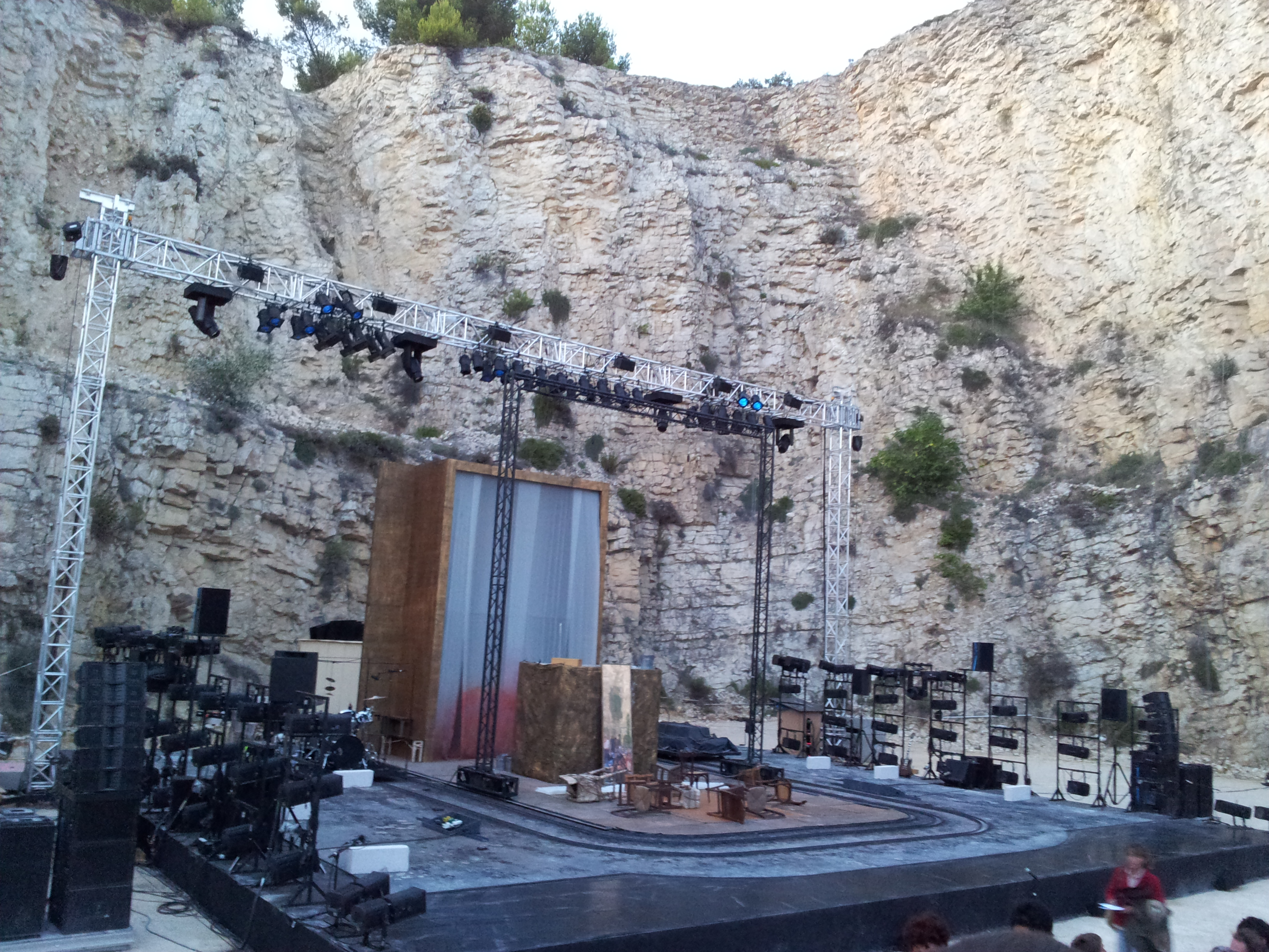 Stage of the Boulbon quarry before the representation of Des femmes (Of women) trilogy directed by Wajdi Mouawad for the 2011 Festival d'Avignon.